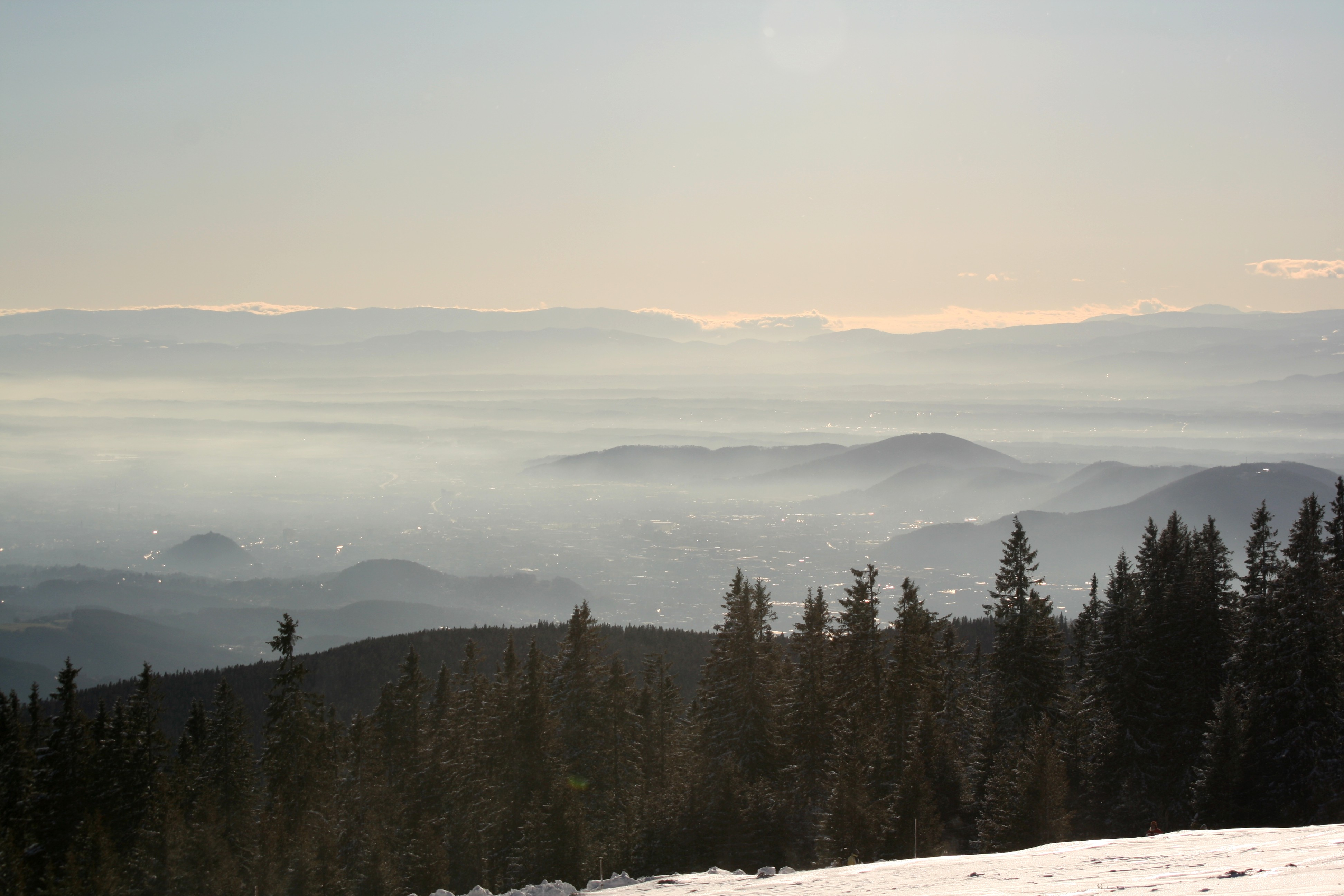 View from "Schöckl" mountain. Styria, Austria, Europe